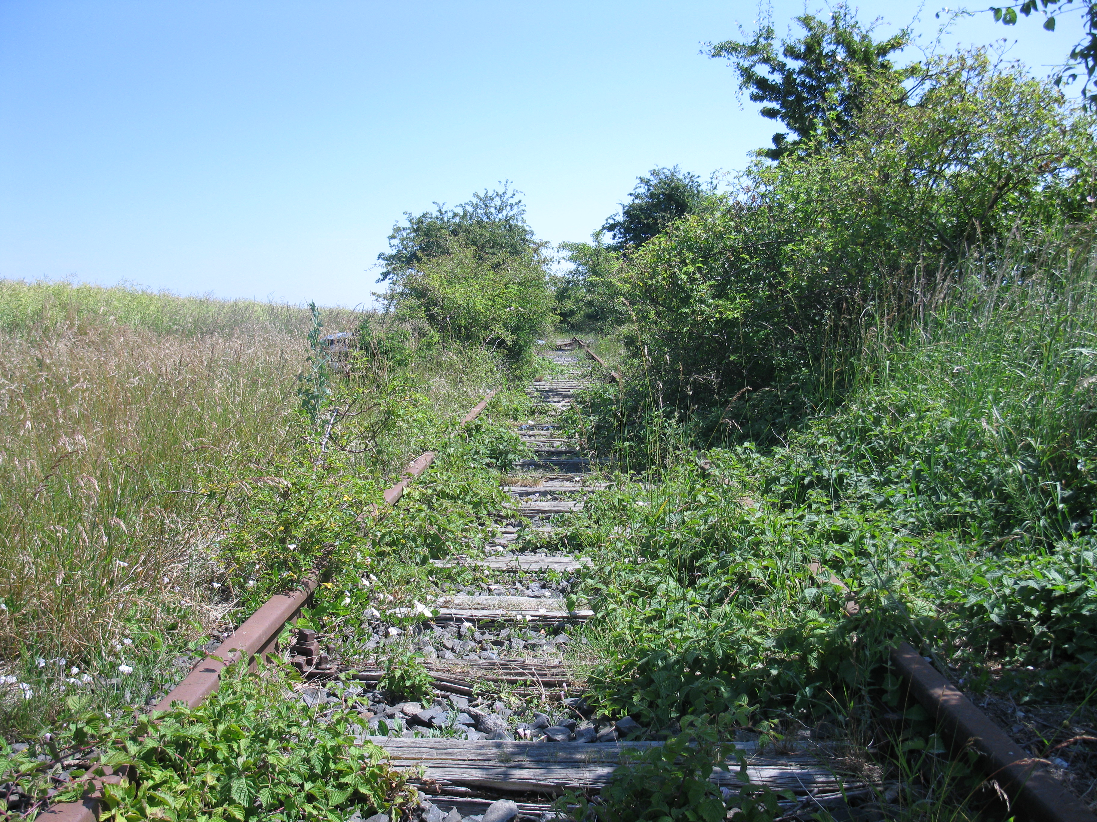 Abandoned railway track near Landkirchen, Fehmarn, Germany